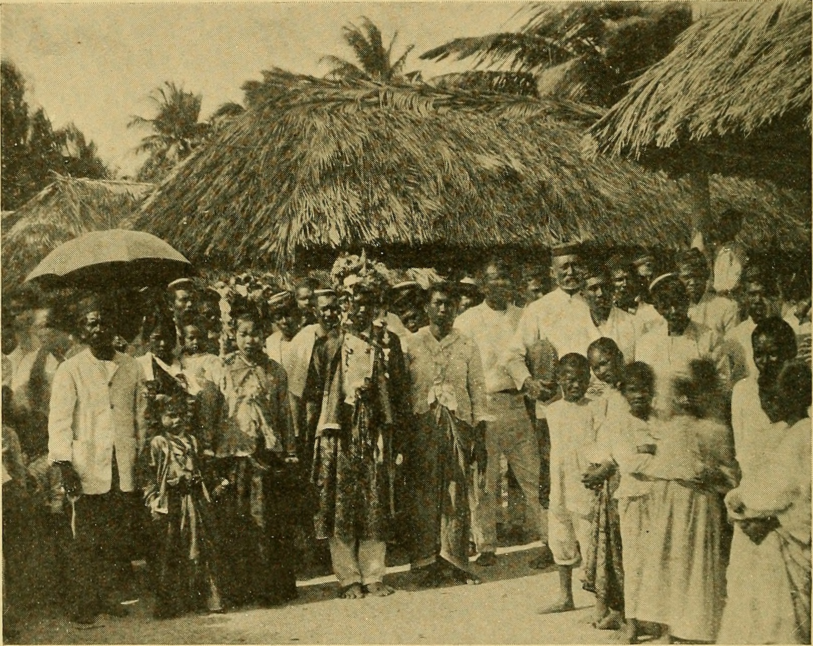 Image from page 91 of "Coral and atolls: a history and description of the Keeling-Cocos Islands, with an account of their fauna and flora, and a discussion of the method of development and transformation of coral structures in general" (1912) Title: Coral and atolls: a history and description of the Keeling-Cocos Islands, with an account of their fauna and flora, and a discussion of the method of development and transformation of coral structures in general Identifier: coralatollshisto00jone Year: 1912 (1910s) Authors: Jones, F. Wood (Frederic Wood), 1879-1954 Subjects: Coral reefs and islands Publisher: London, Lovell Reeve & Co. , Ltd. Text Appearing Before Image: 52 CORAL AND ATOLLS help of his friends, captured a maiden from the company of a neighbouring tribe. The bridegroom's friend was his assistant in the raid, and to-day the descendant of the brother raider is seen, in our own weddings, as the best man, though custom has long since spared him the ordeal of making sword- Fm. 1. Text Appearing After Image: A Wedding Geoup in Cocos-Keeijng. The bride and bridegroom are wearing the flower-decked headgear. play, or firing blank charges in the direction of the bride's mother. Just as our best man is seen on a glorified scale in these Cocos wedding ceremonies, so is the custom of sending out Avedding cake to absent friends displayed in its archaic form at the feasts of the Malays. The food that is to be used at the wedding feast—or indeed at any other ceremony of general